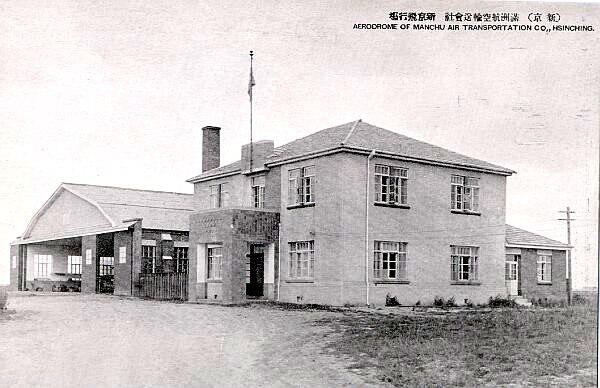 Commemorative postcard showing the Hsinking (Shinkyo) Airport